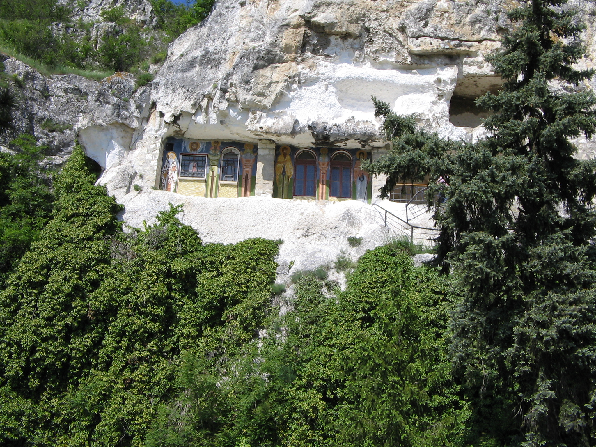 Rock monastery "Saint Dimitur Basarbovsky", Bulgaria